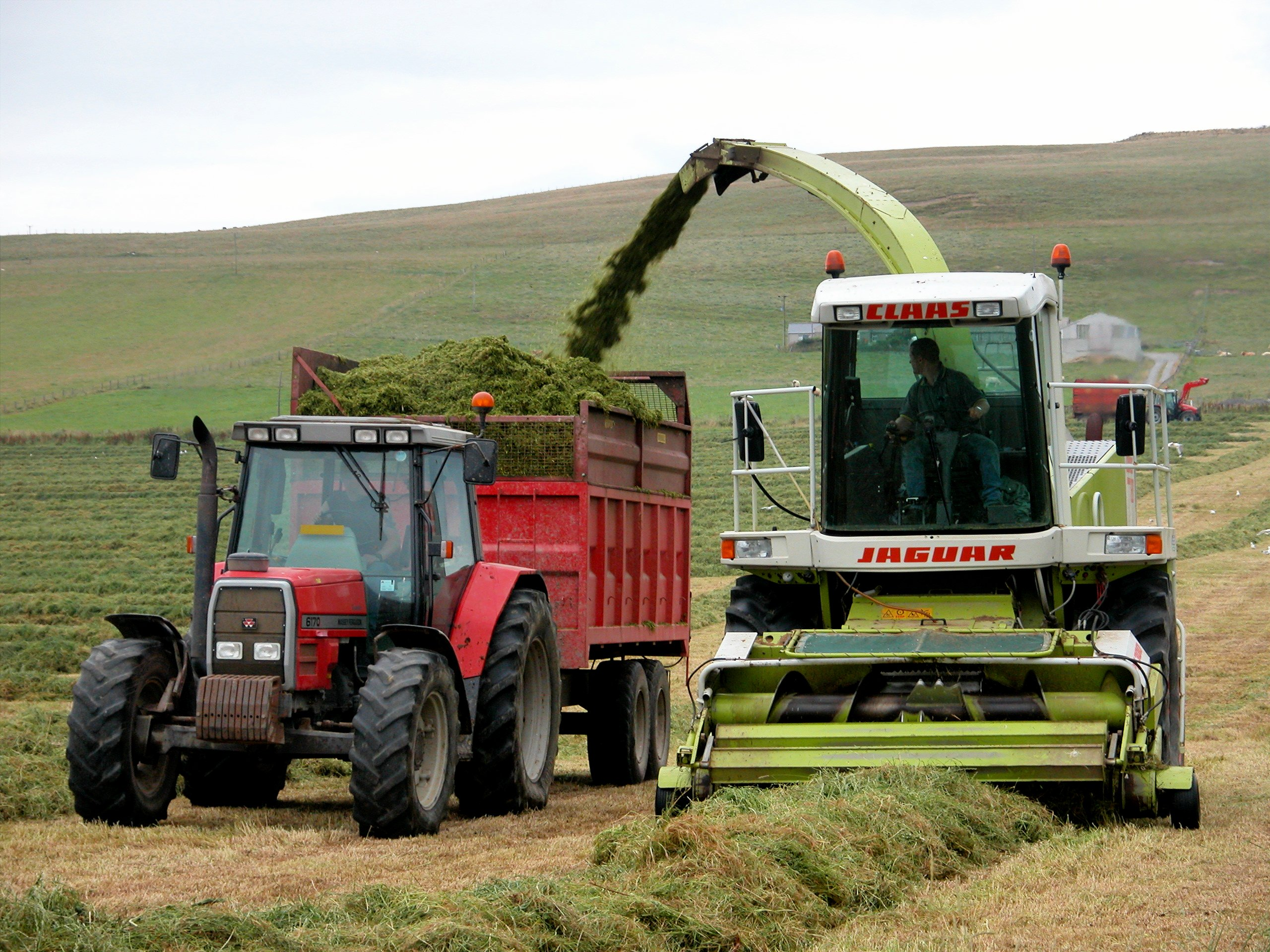 Claas Jaguar forage harvester and Massey Ferguson 6170 tractor with trailer – Cutting grass silage at Folsetter, Birsay, Scottland